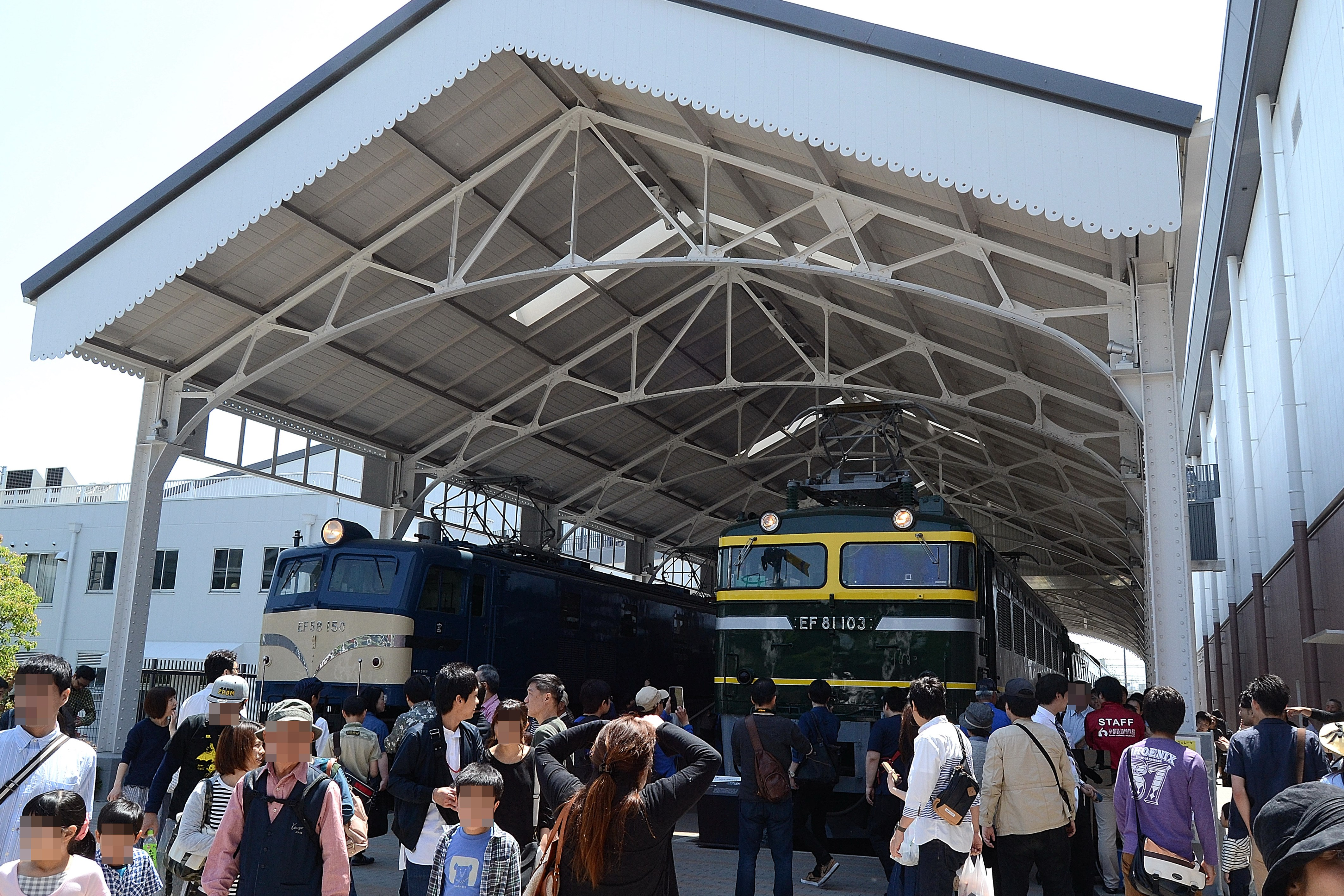 Preserved electric locomotives EF58 150 (left) and EF81 103 (right) in the "Twilight Plaza" zone of the Kyoto Railway Museum